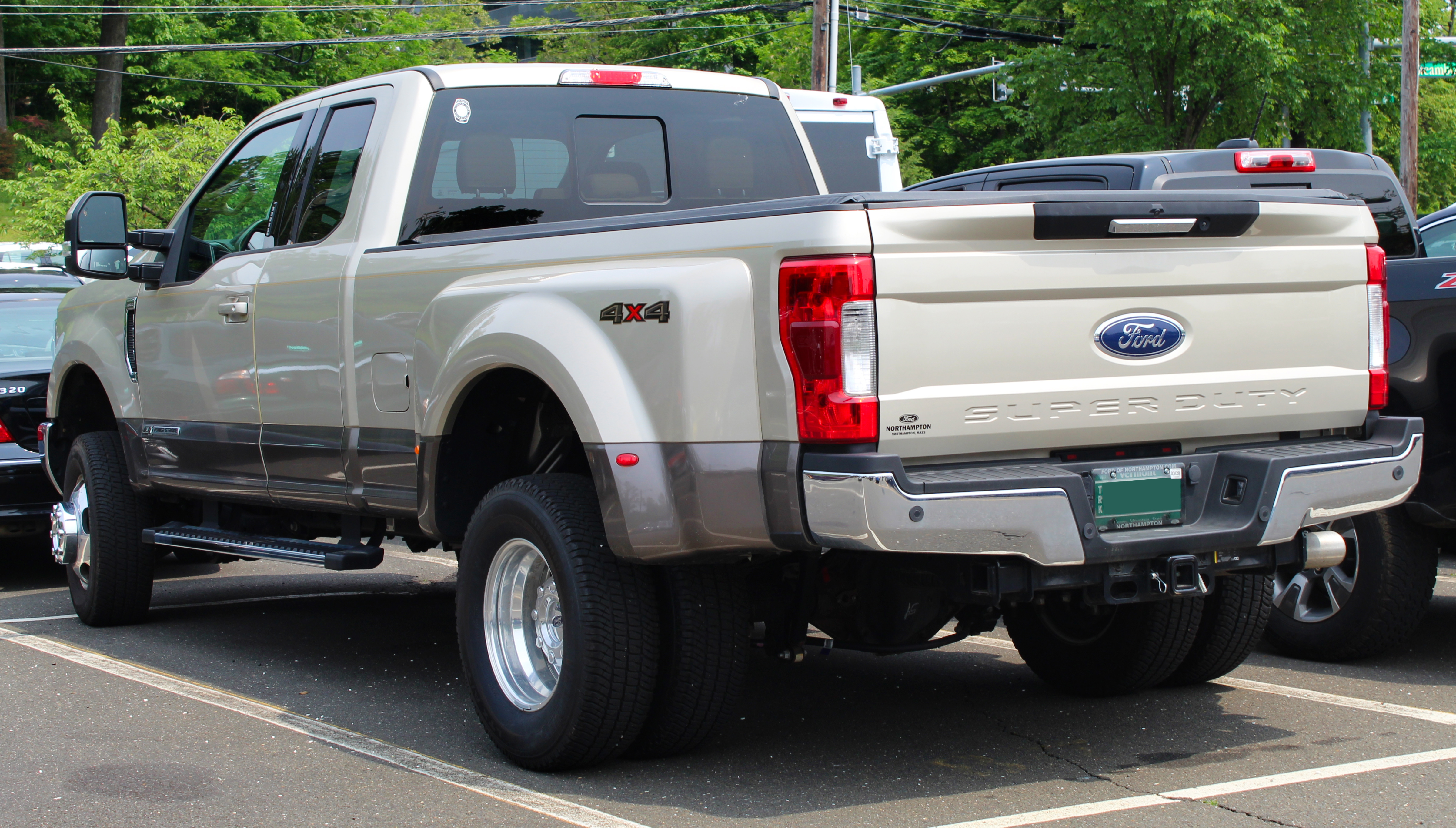 A 2018 Ford F-350 Super Duty Lariat photographed in Greenwich Concours d'Elégance Hagerty parking lot, Connecticut, USA